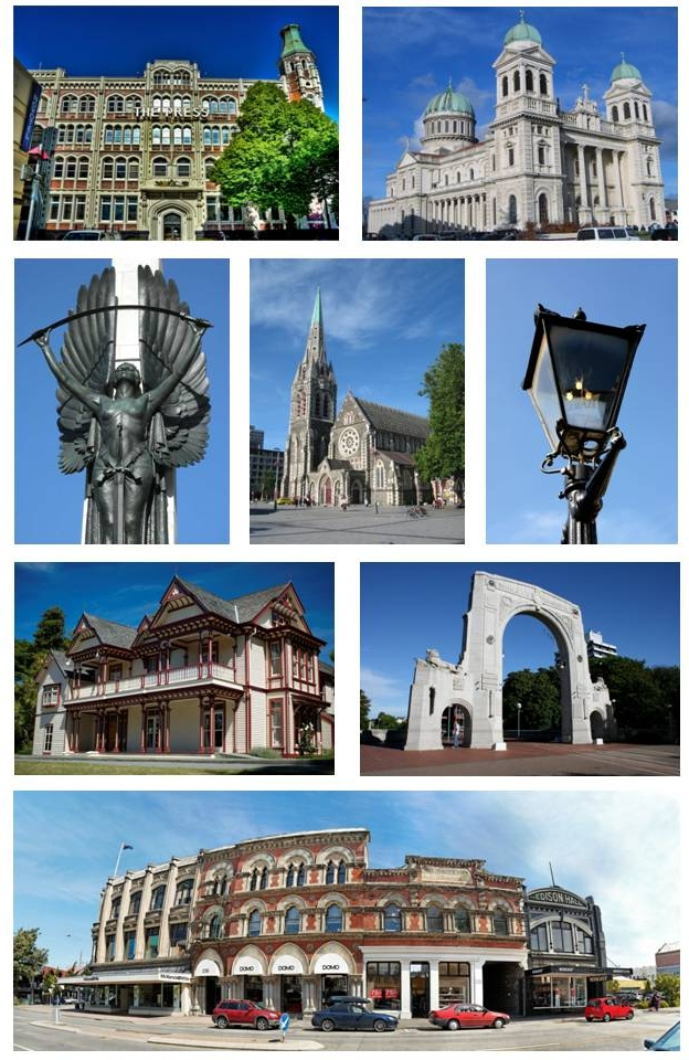 Francis Petre's Cathedral of the Blessed Sacrament, Christchurch, New Zealand.